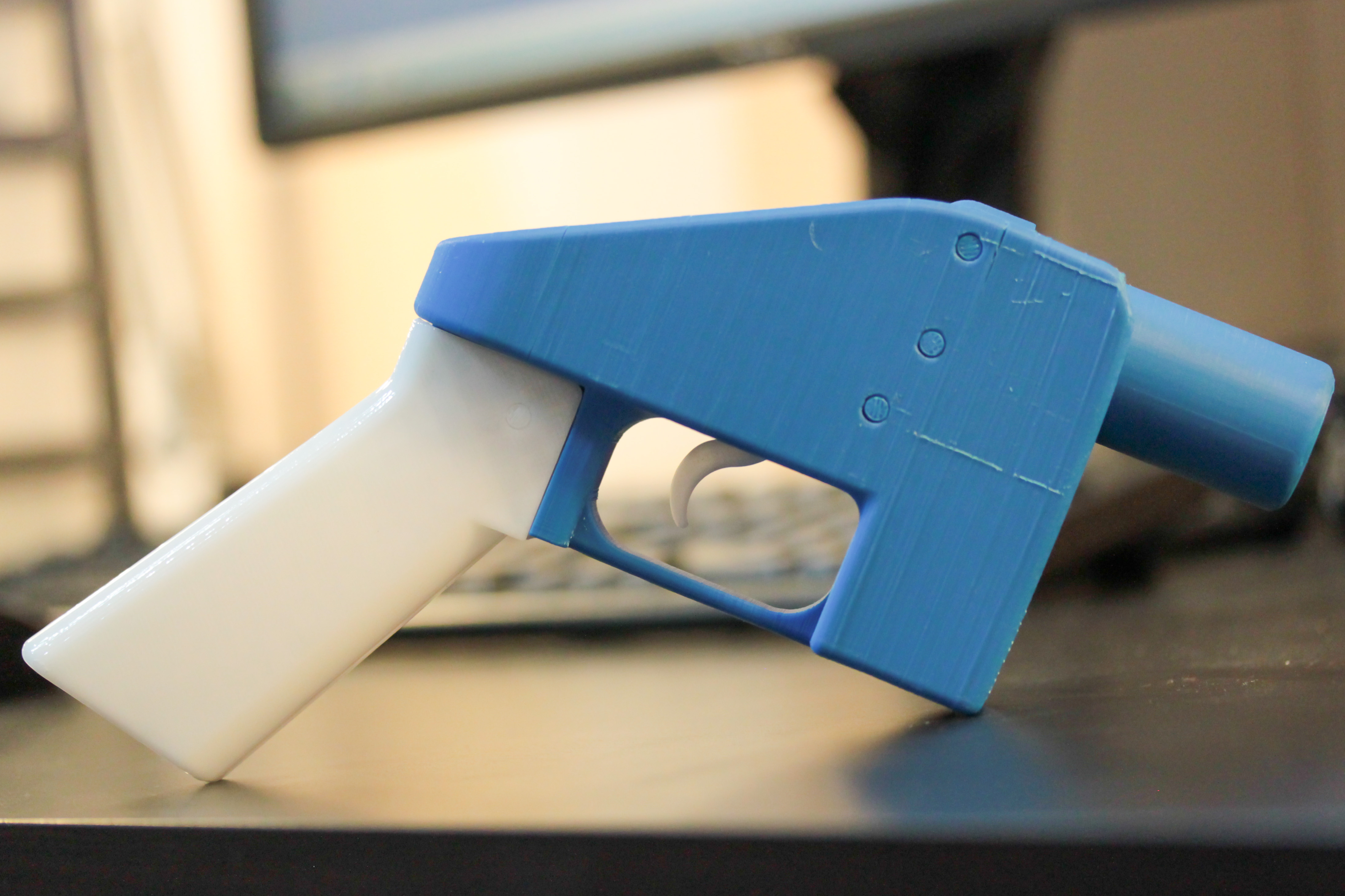 The Liberator gun, designed by Defense Distributed. Photo originally made at 16-05-2013 by Vvzvlad, and licensed as CC-BY-SA 3.0